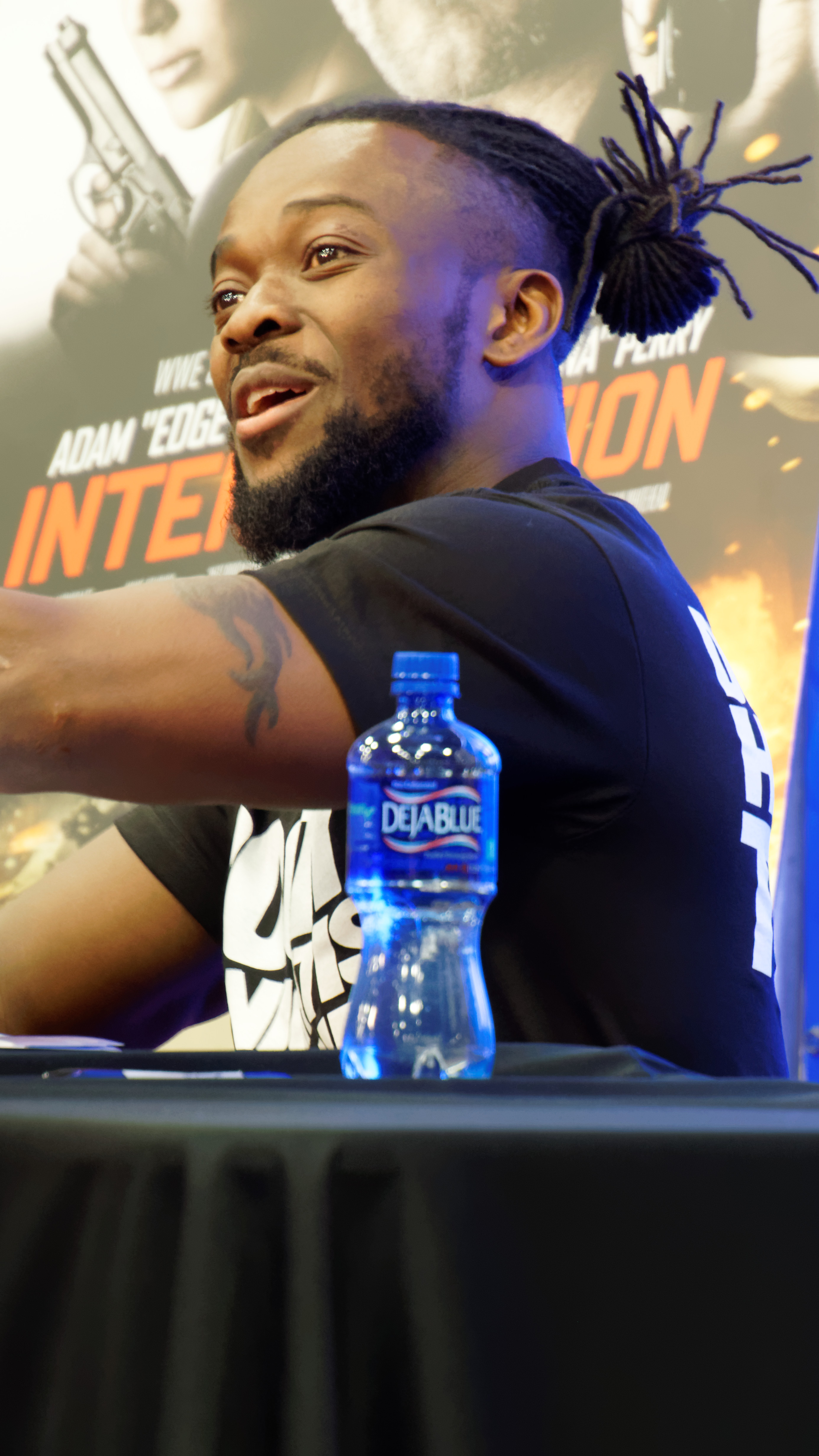 WrestleMania Axxess takes over the Kay Bailey Hutchison Convention Center in Dallas March 31-April 3. Featuring Superstar and Diva meet-and-greets, memorabilia displays and much more, WrestleMania Axxess is one event WWE fans of all ages will want to be part of. Don't miss out!